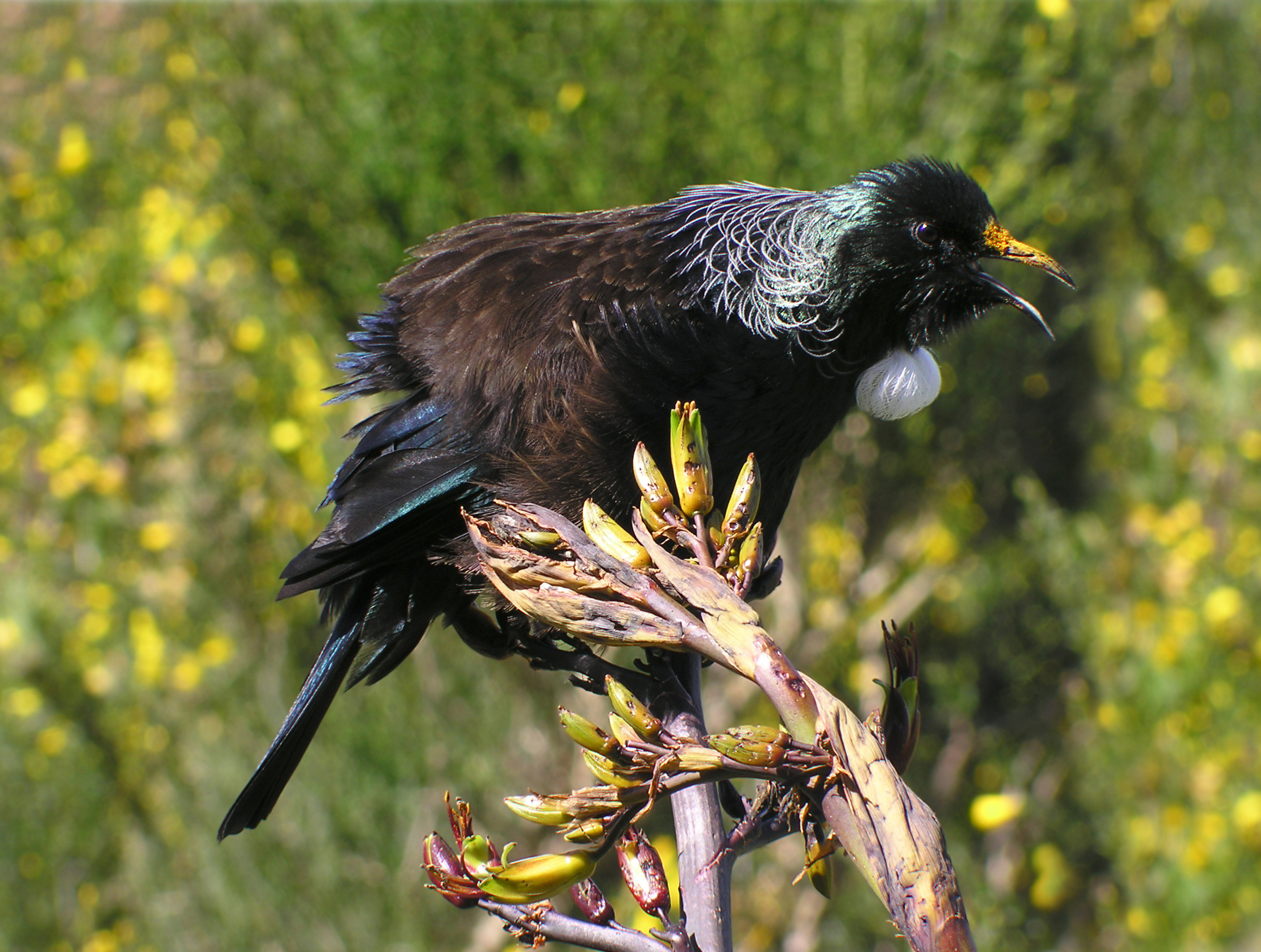 Tui on flax bush with feathers ruffled up, singing to the world (yellow colour on top of beak is pollen from the flax flowers). Wrights hill, Wellington, New Zealand